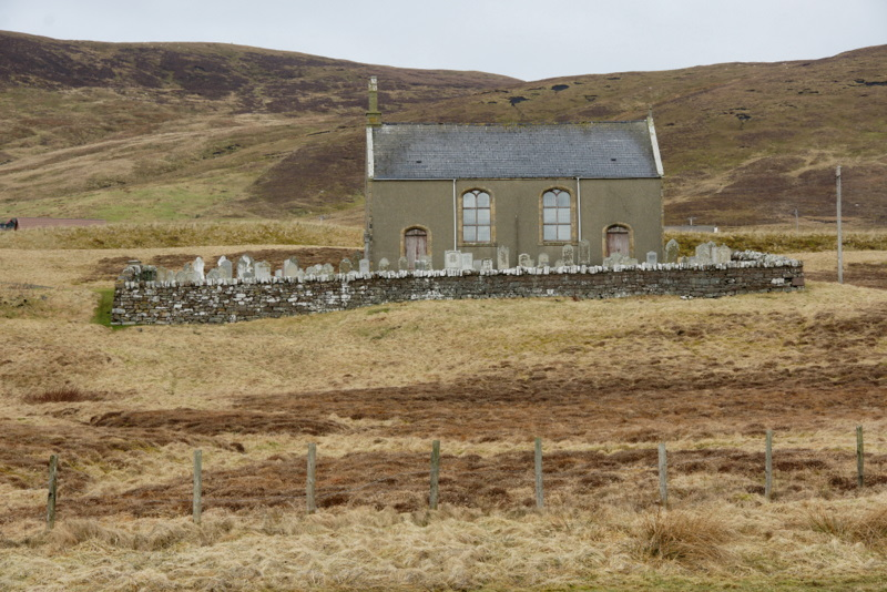 Easter Quarff kirk